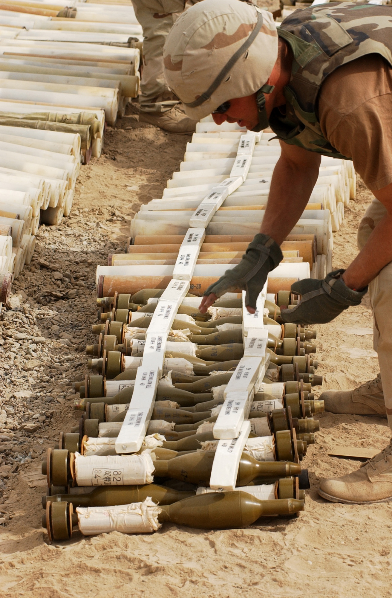 Kandahar, Afghanistan -- A U.S. Navy Explosive Ordnance Disposal (EOD) technician places C4 explosives on Chinese 82mm Type 65 Recoilless Rifles, and 82mm High Explosive Anti Tank (HEAT) Recoilless Rifle Rounds near the Kandahar International Airport in Afghanistan. EOD teams continue to locate and destroy ammunition seized during missions in support of Operation Enduring Freedom.)